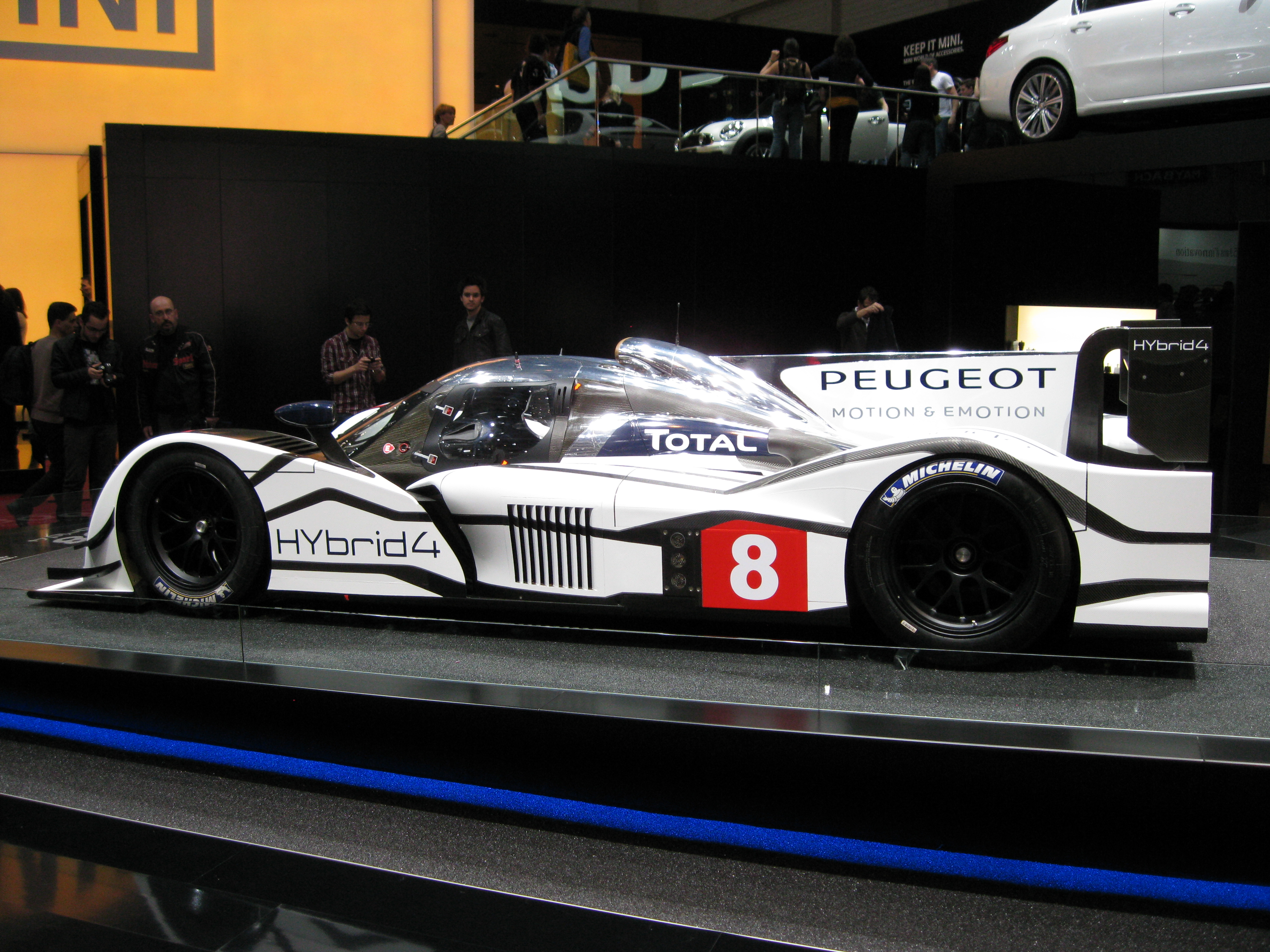 Geneva Motor Show 2011